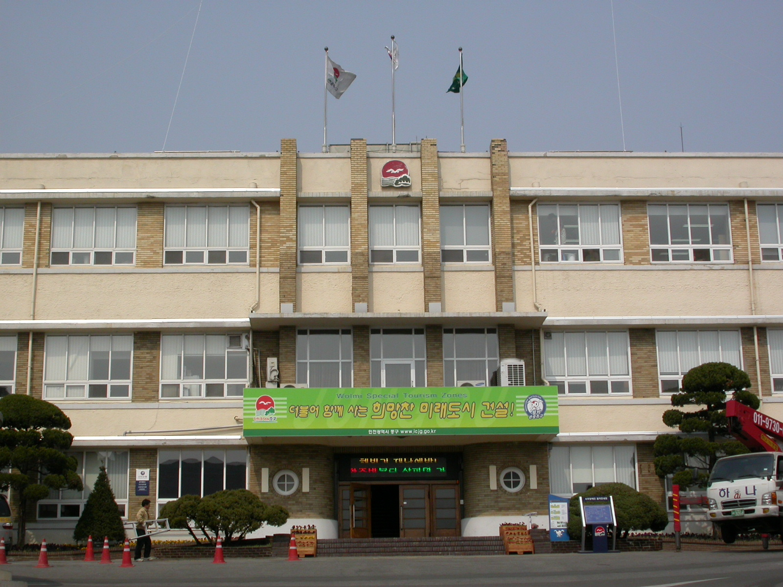 Incheonbu office